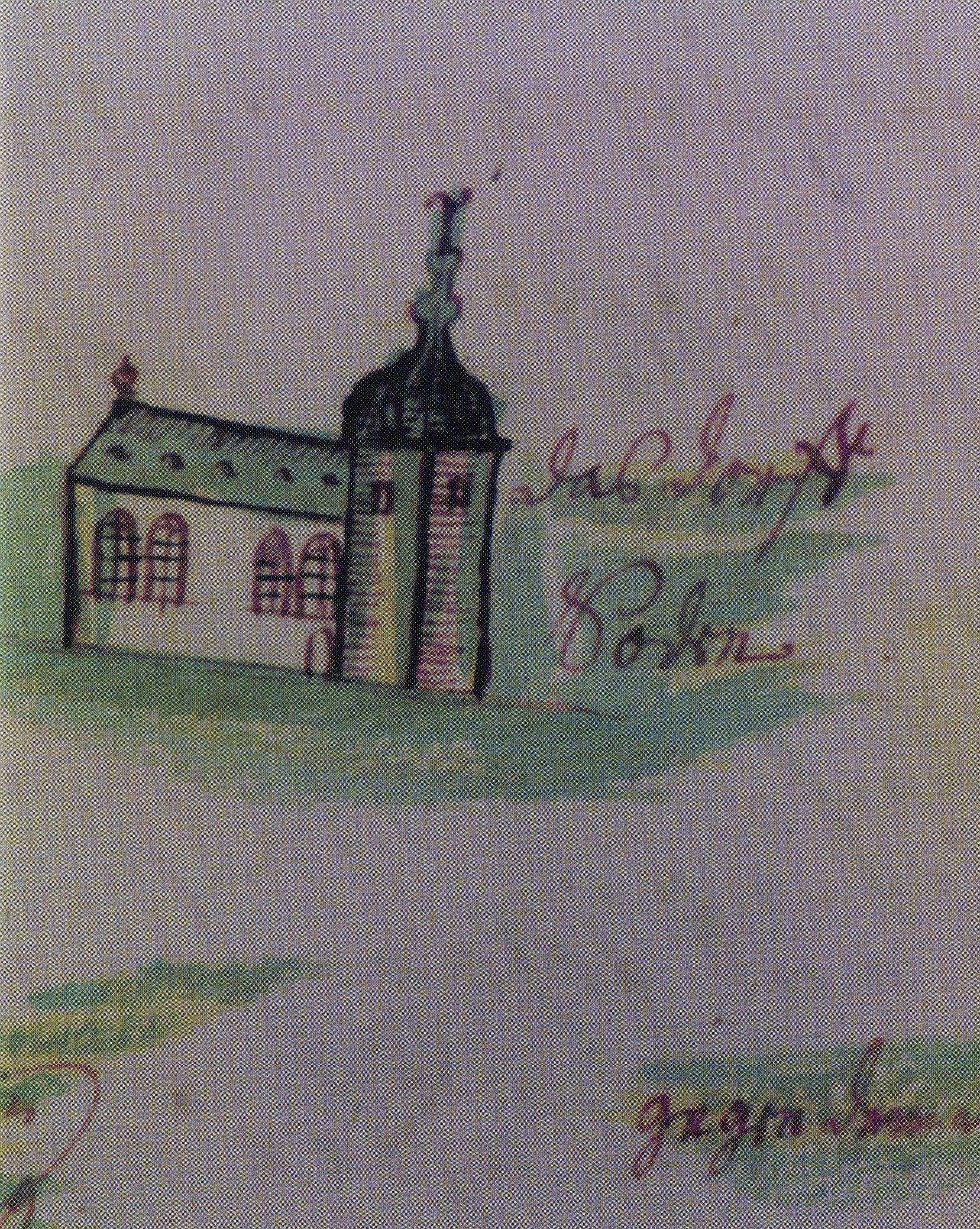 Old picture of the protestant church in Bad Soden am Taunus